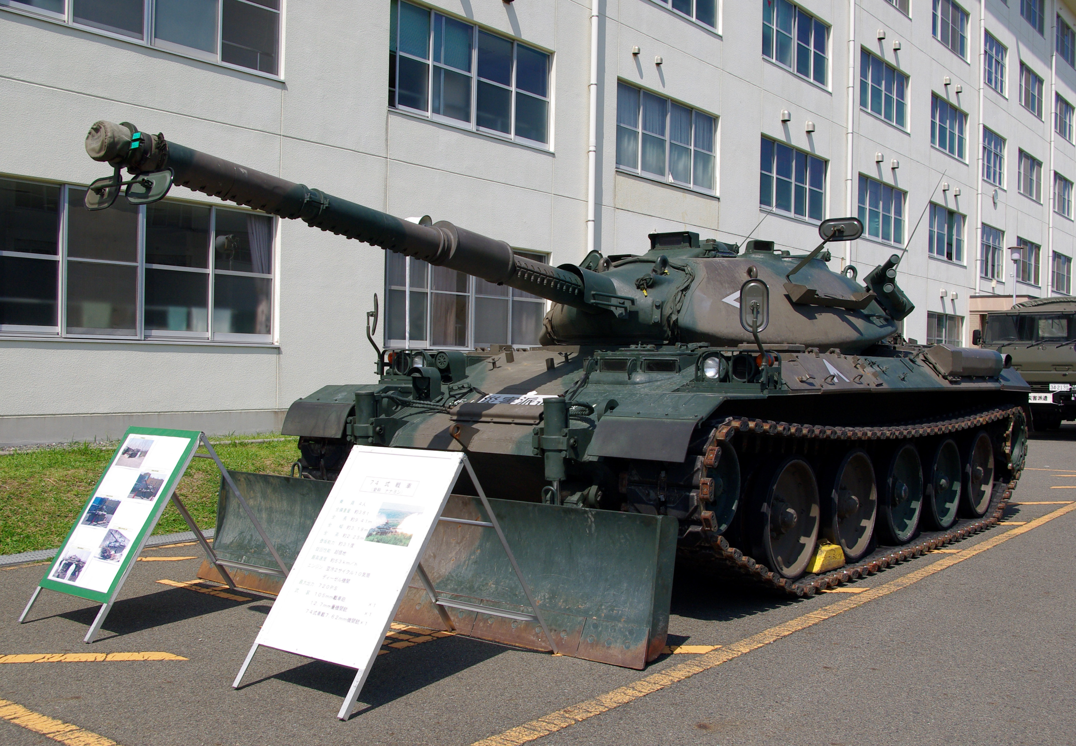 JGSDF Type74 Tank with dozer blade,1st Armored Training Unit/Eastern Army Combined Brigade.Taken by Los688,in Camp Takeyama,Japan,at 27-May-2012.PD-self ja:74式戦車 排土板付 2012年05月27日、東部方面混成団第1機甲教育隊 武山駐屯地で撮影。